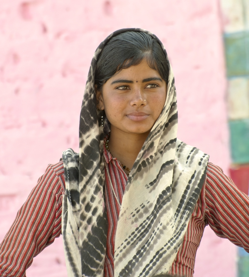 A Banjaran woman in Village Soda in District Tonk, Rajasthan, India.